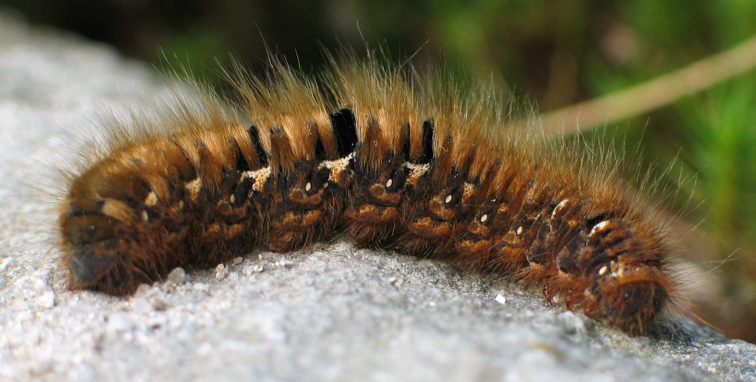 Caterpillar of Oak Eggar (Lasiocampa quercus)